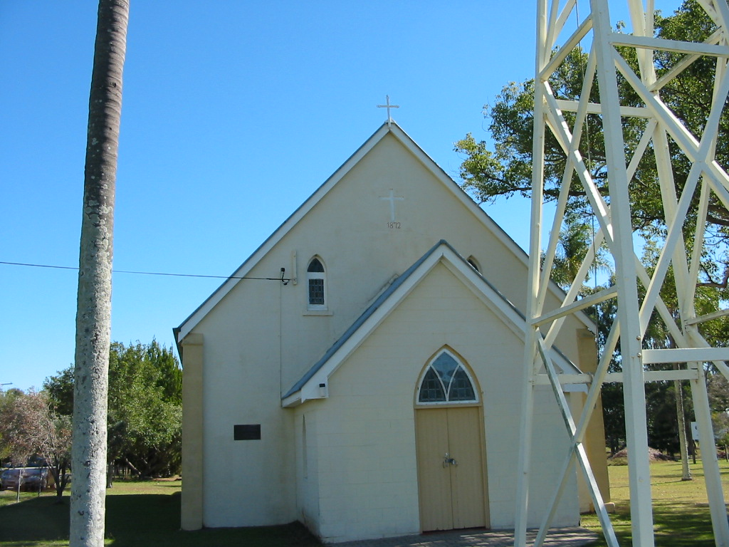 Bethania Lutheran Church, front, 2005. Date of construction 1872 is visible on the front of the church.